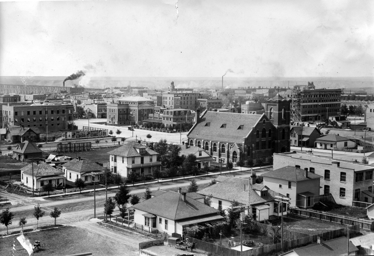 Downtown Lethbridge, looking northwest. 1911